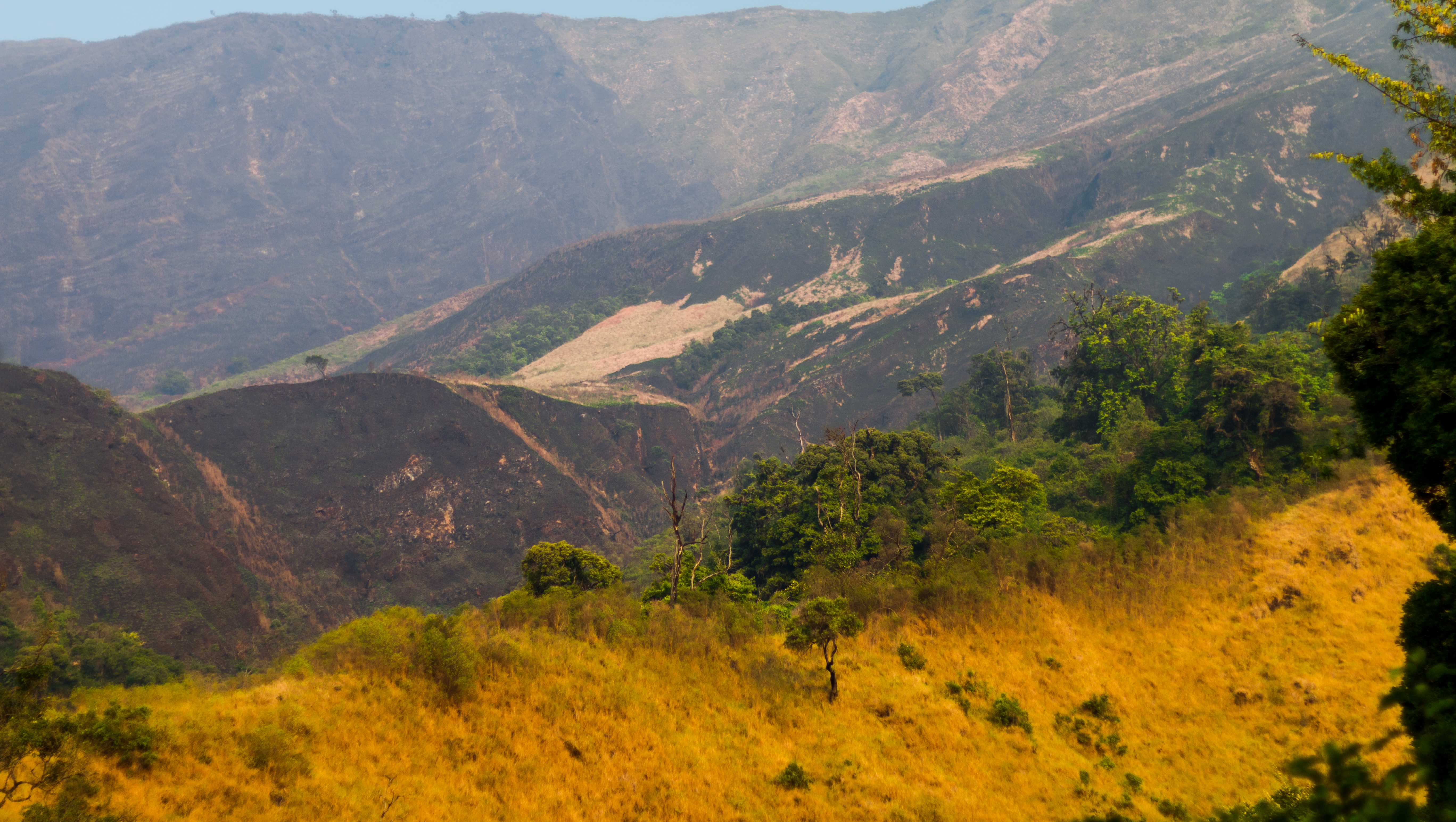 This is an image with the theme "Africa on the Move or Transport" from: Cameroon